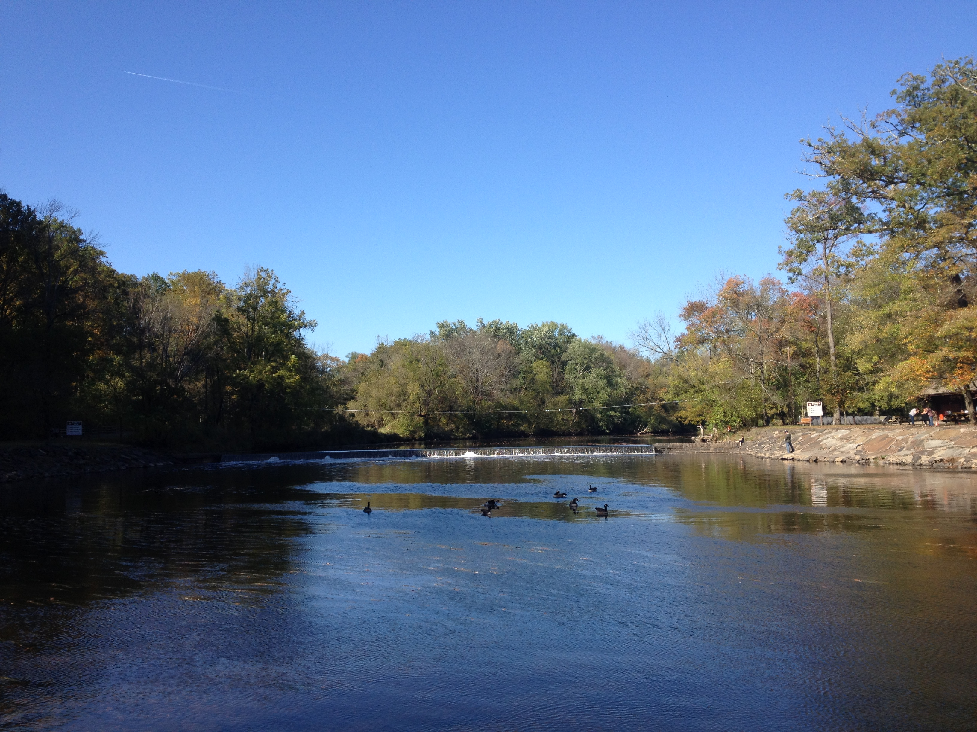 The Neshaminy Creek in Tyler State Park near Newtown, Pennsylvania.